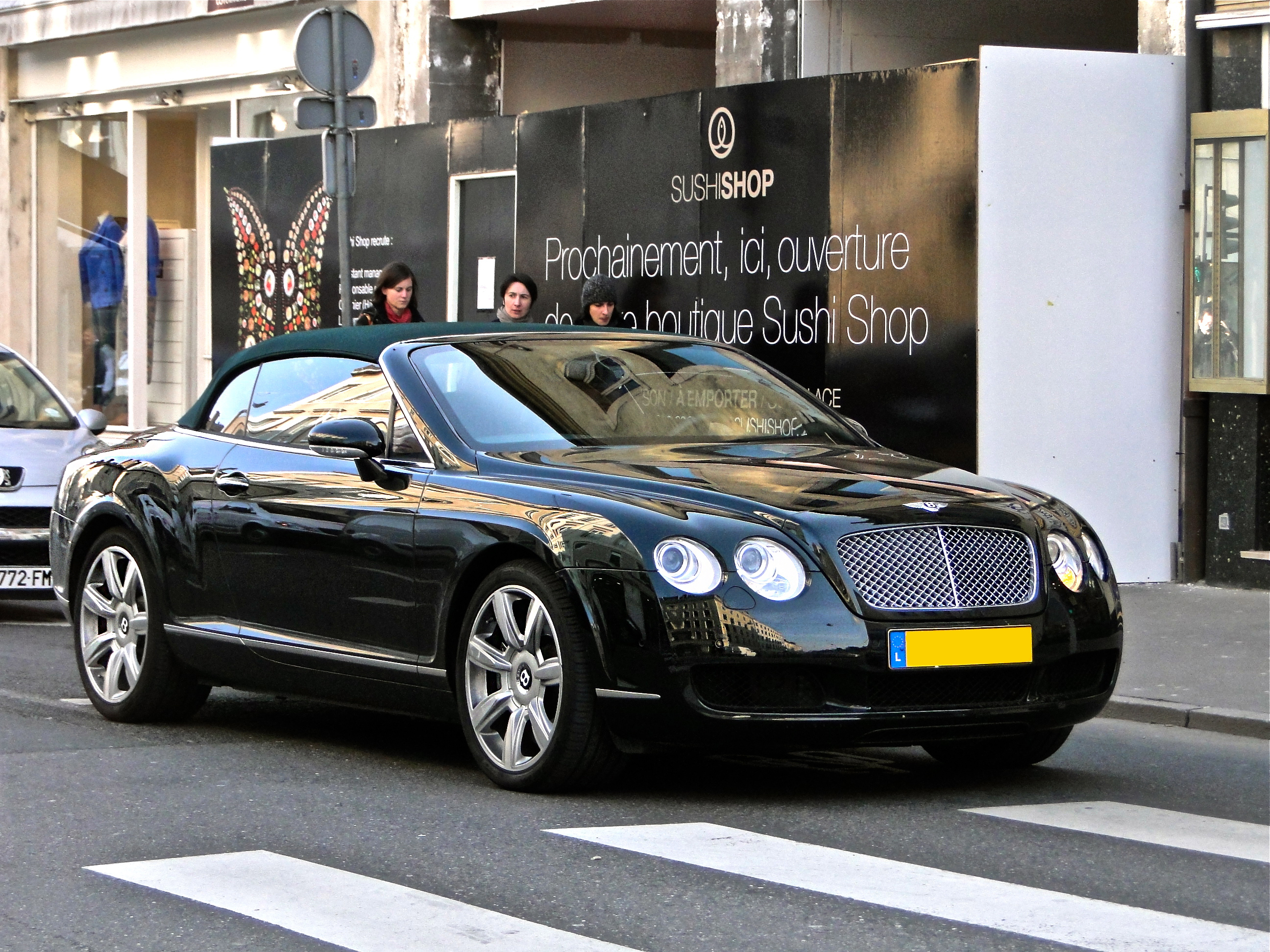 Bentley Continental GTC